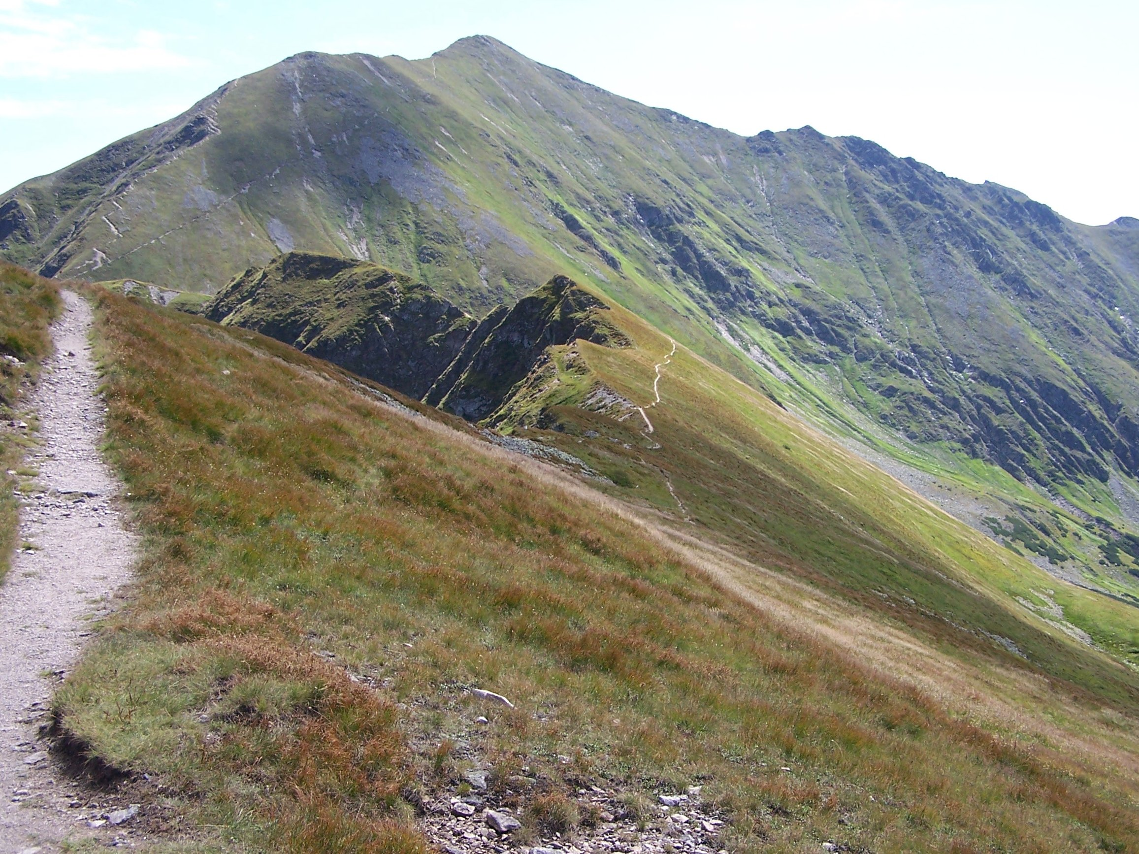 Liliowe Turnie, Bystra (West Tatra Mountains)